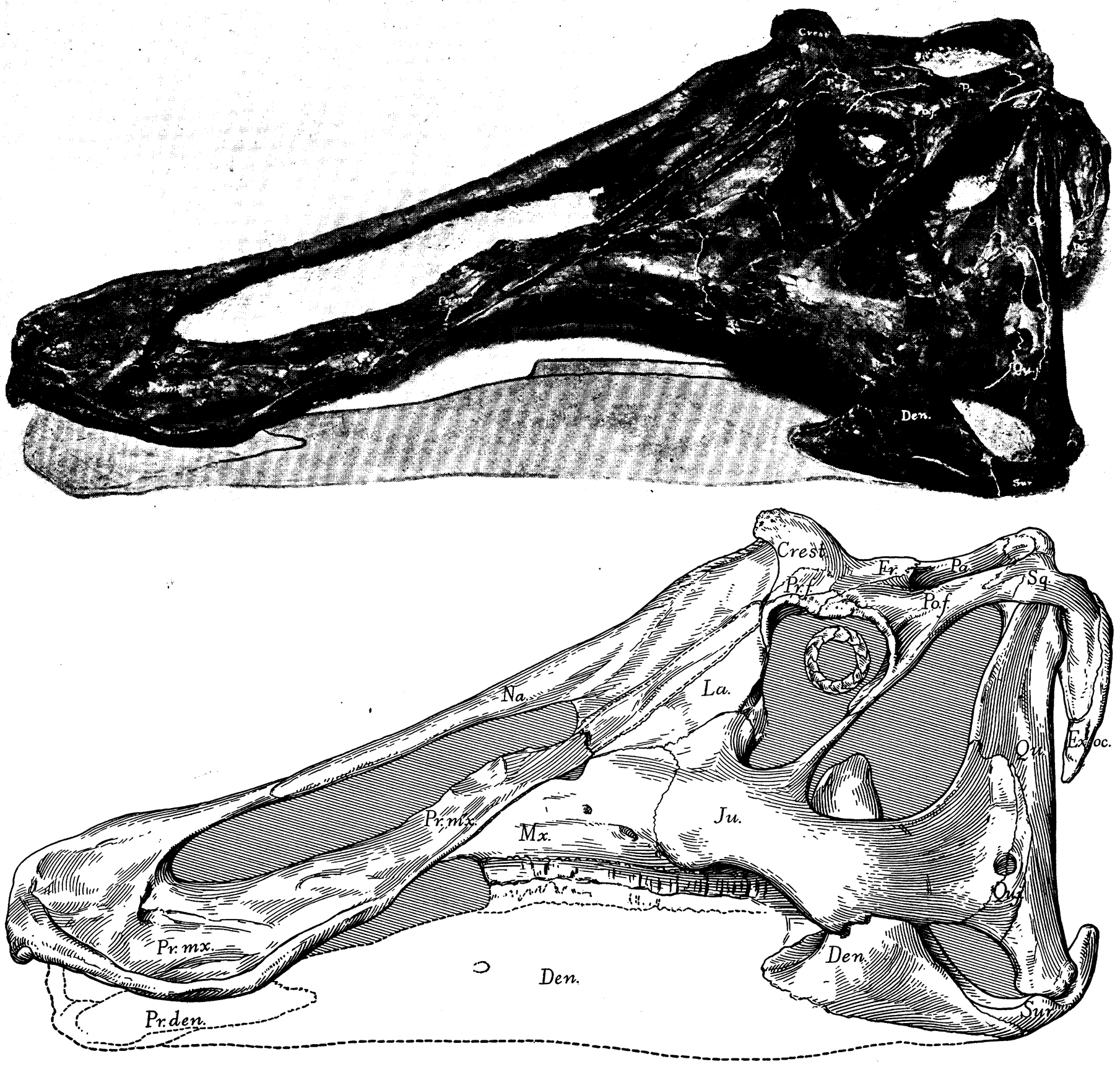 Holotype skull of Prosaurolophus maximus AMNH 5836